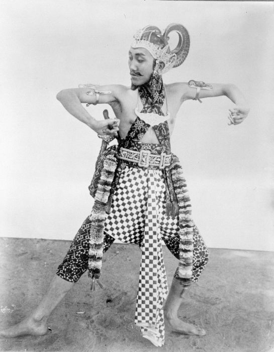 Wayang wong performance 'Jaya Semadi and Sri Suwela' in the palace of the Sultan of Yogyakarta